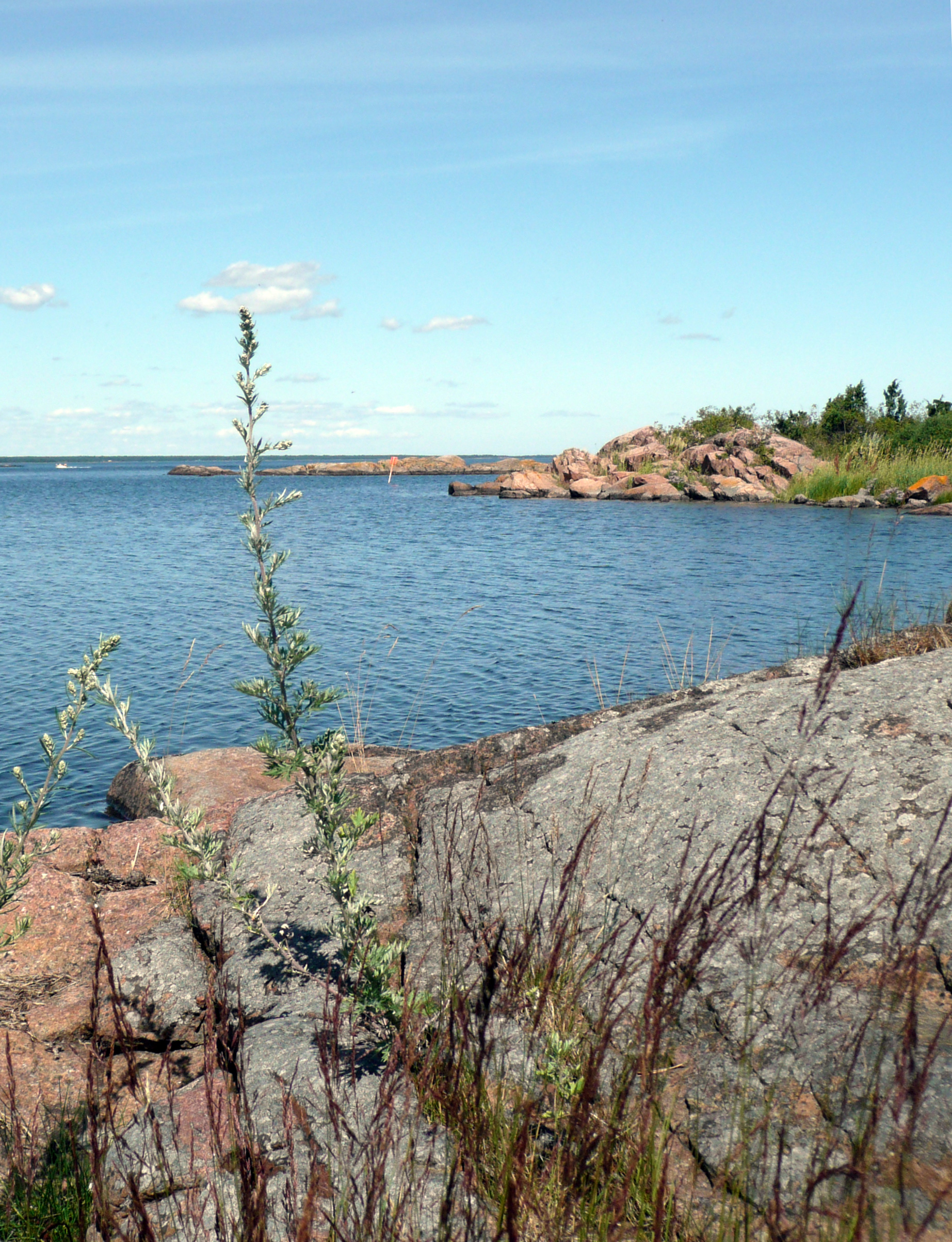 A picture of the archipelago of Oskarshamn